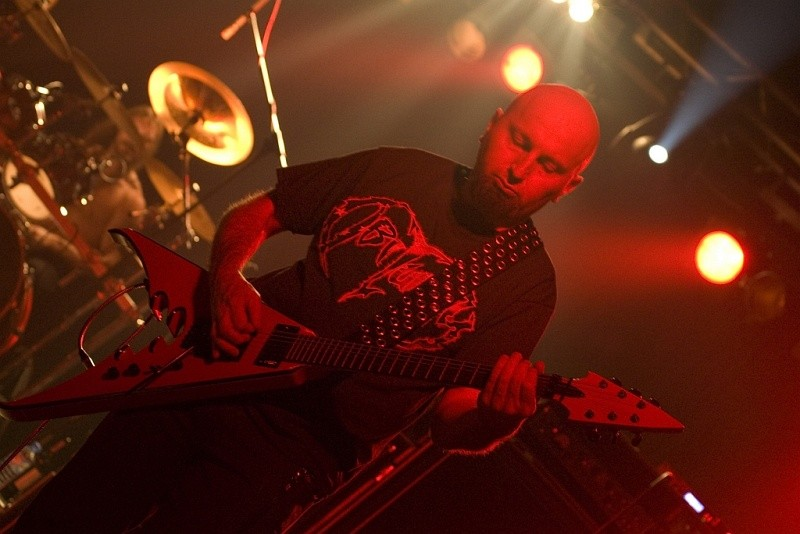 Winterfest 2009, Deicide, Warszawa, Progresja, 22.01.2009